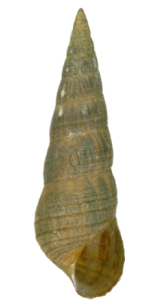 Photo of an apertural view of a shell of Tylomelania carota.